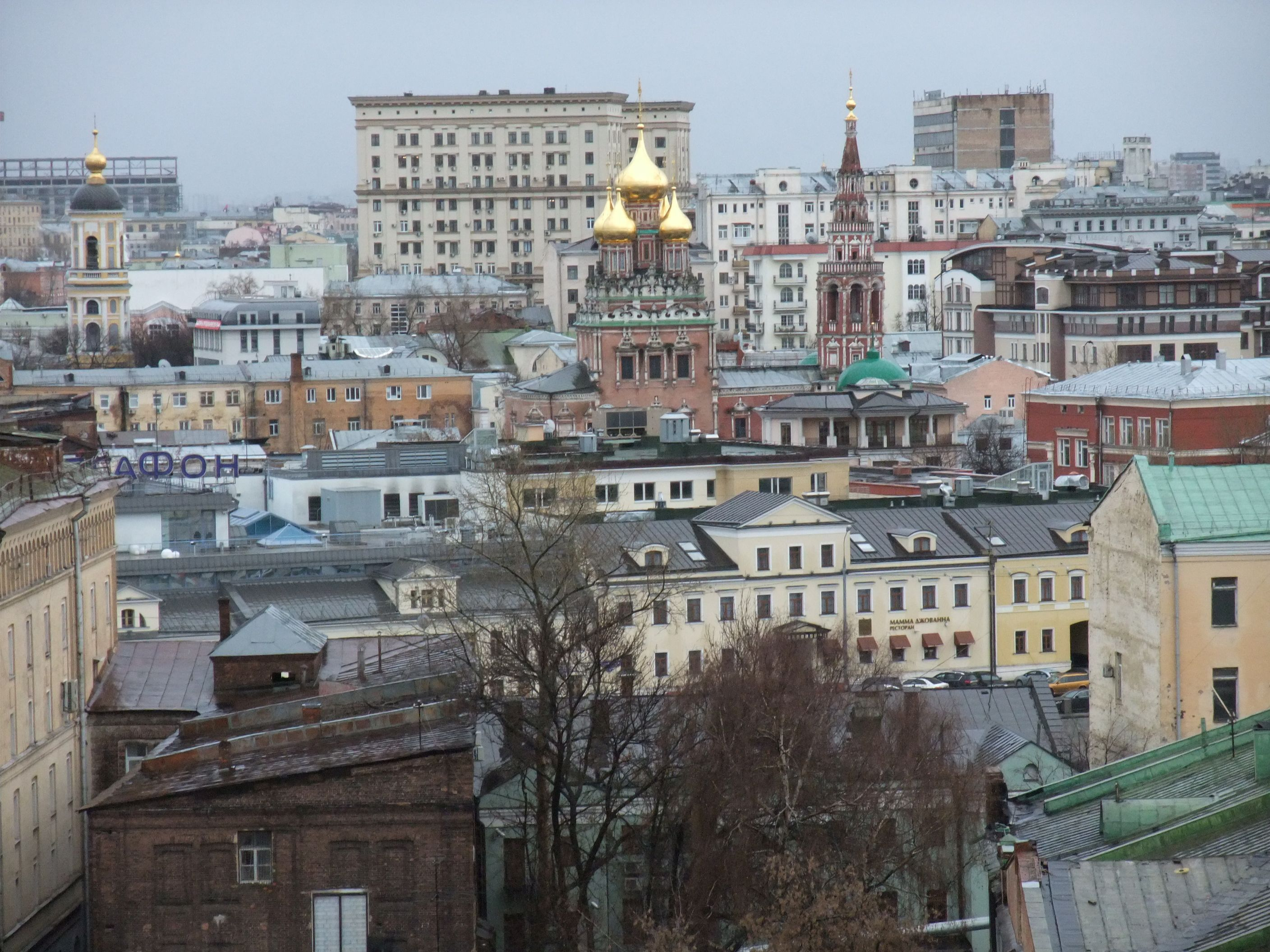 Church of Resurrection in Kadashi, Moscow